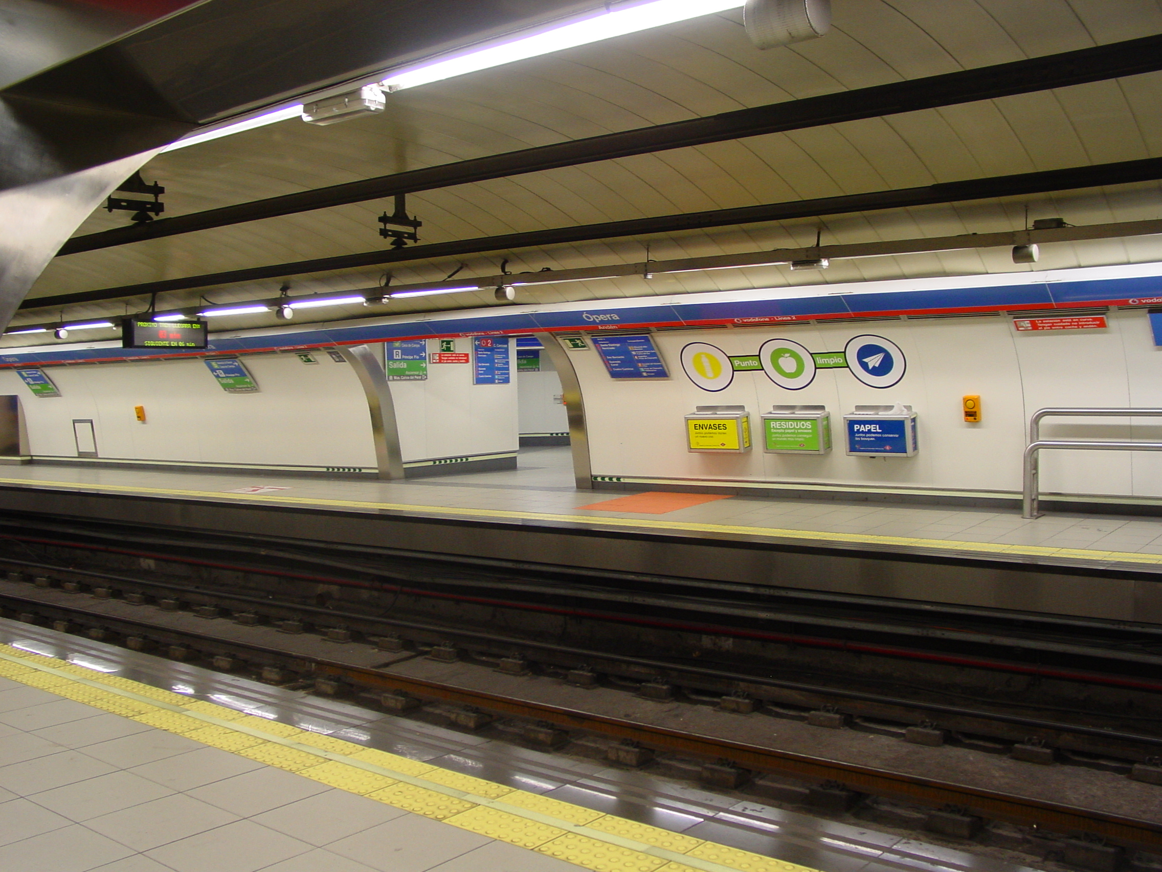 Platform view of Opera station, Madrid Metro, line 2. Short passage in the center of that image laeds to Ramal platform.